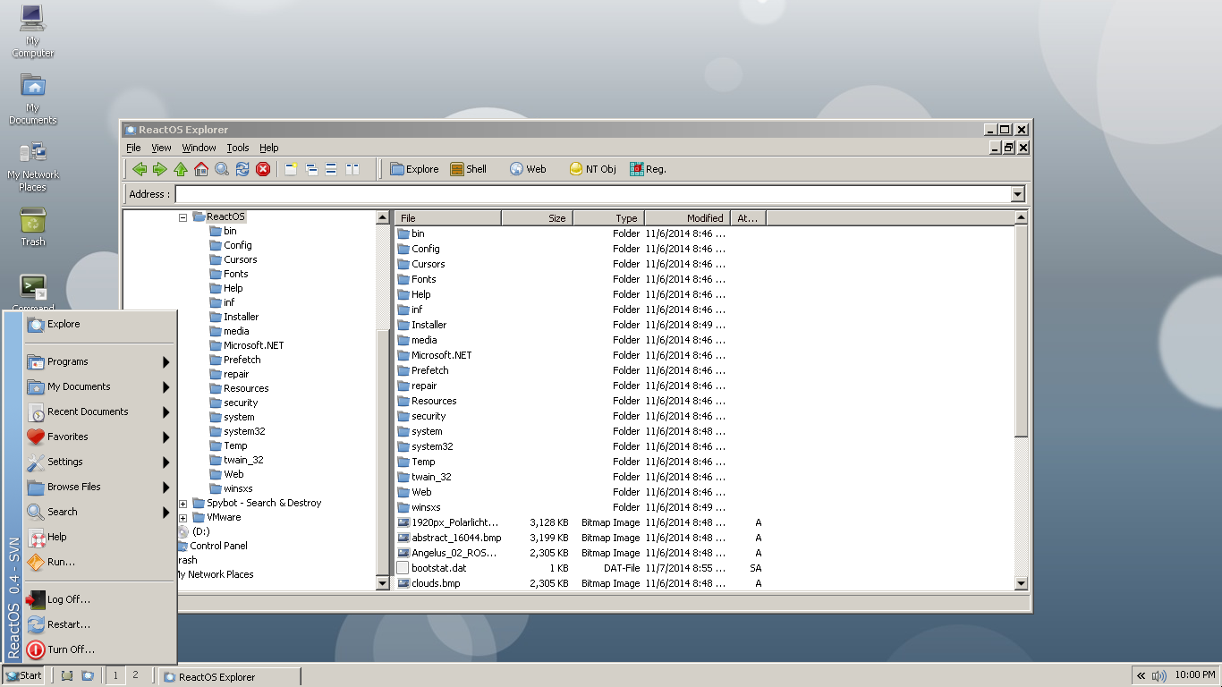 ReactOS Explorer and Start menu